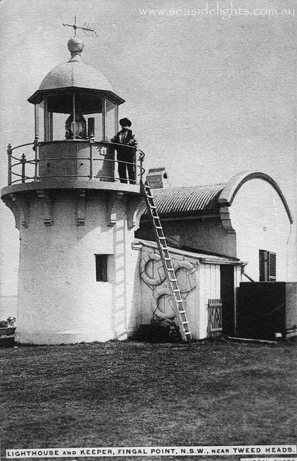 Fingal Head and Lightkeeper, historical postcard. pre 1920